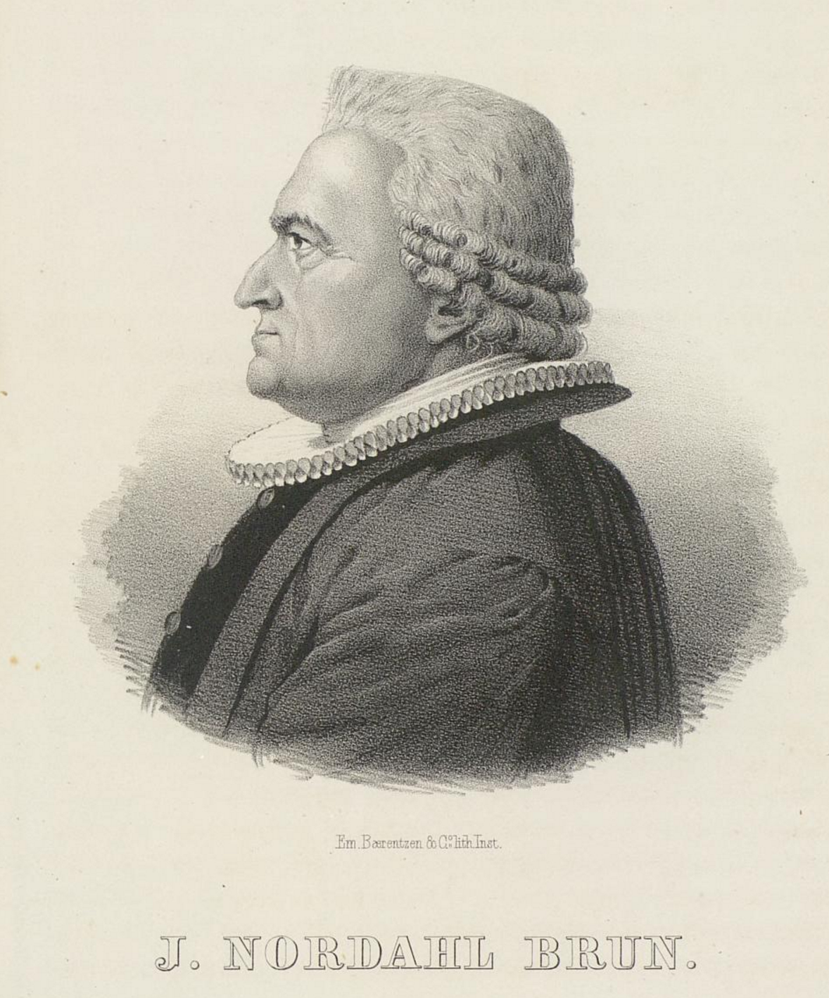 Lithograph of Johan Nordahl Brun (1745-1816), by "Em. Bærentzen & Co. Lith. Inst. i Kiøbenhavn"